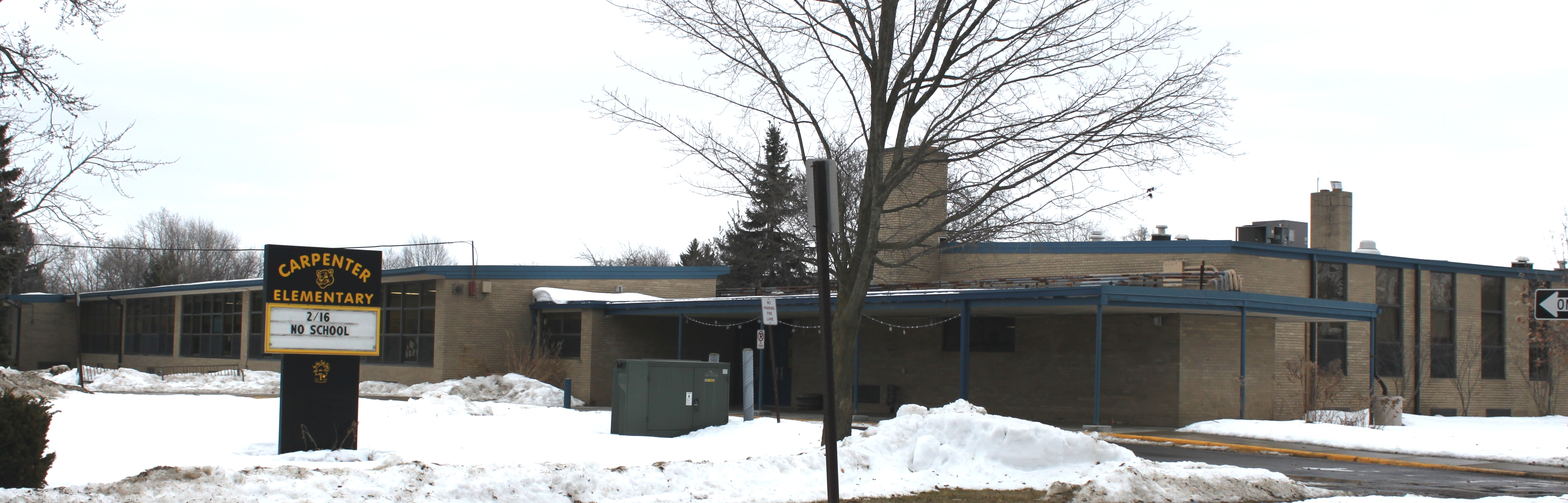 Carpenter Elementary School, 4250 Central Boulevard, Ann Arbor, Michigan.